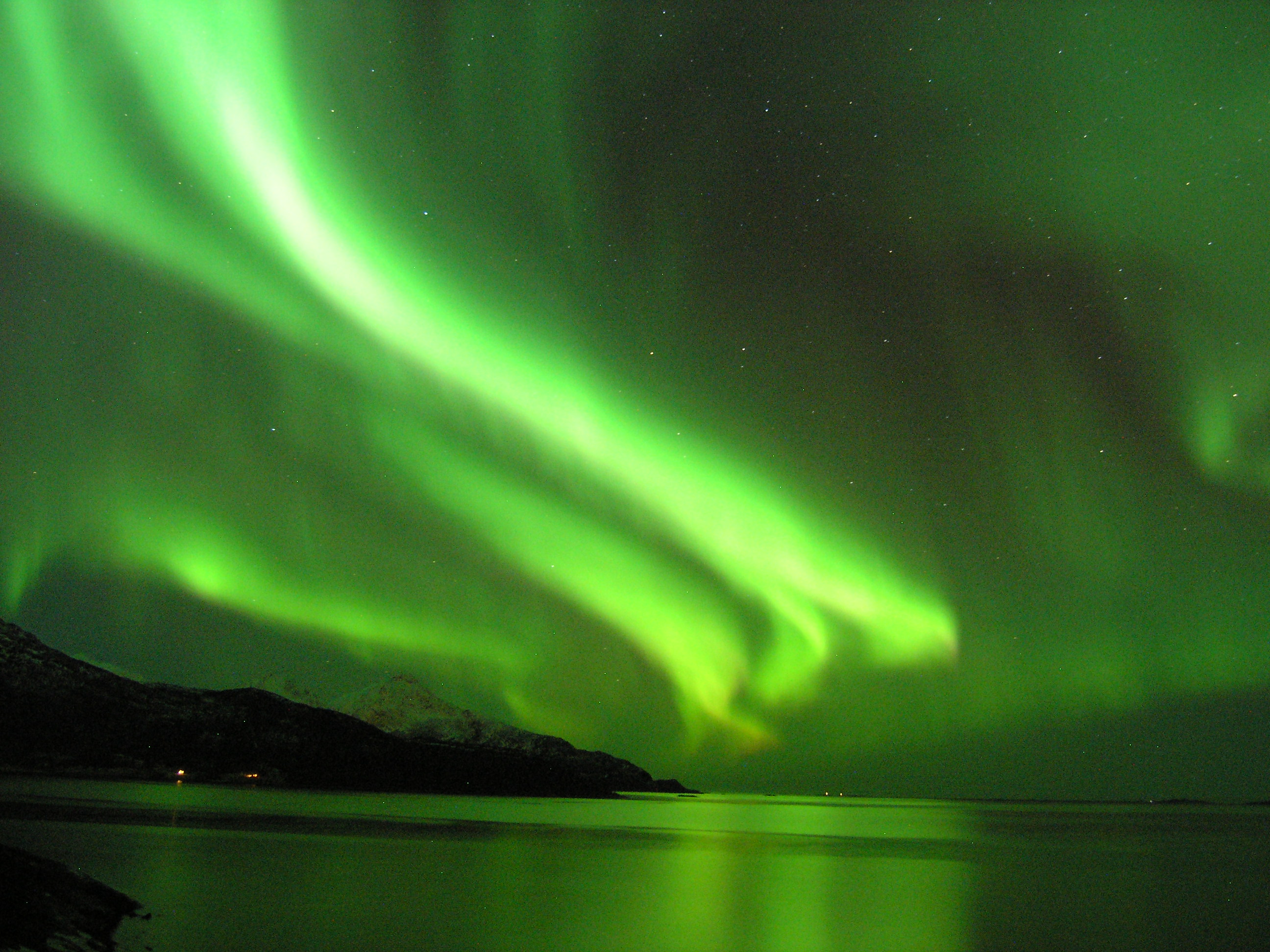 Northern Lights, Tromso, Northern lights around Tromsø, Norway.Location: Tromsø